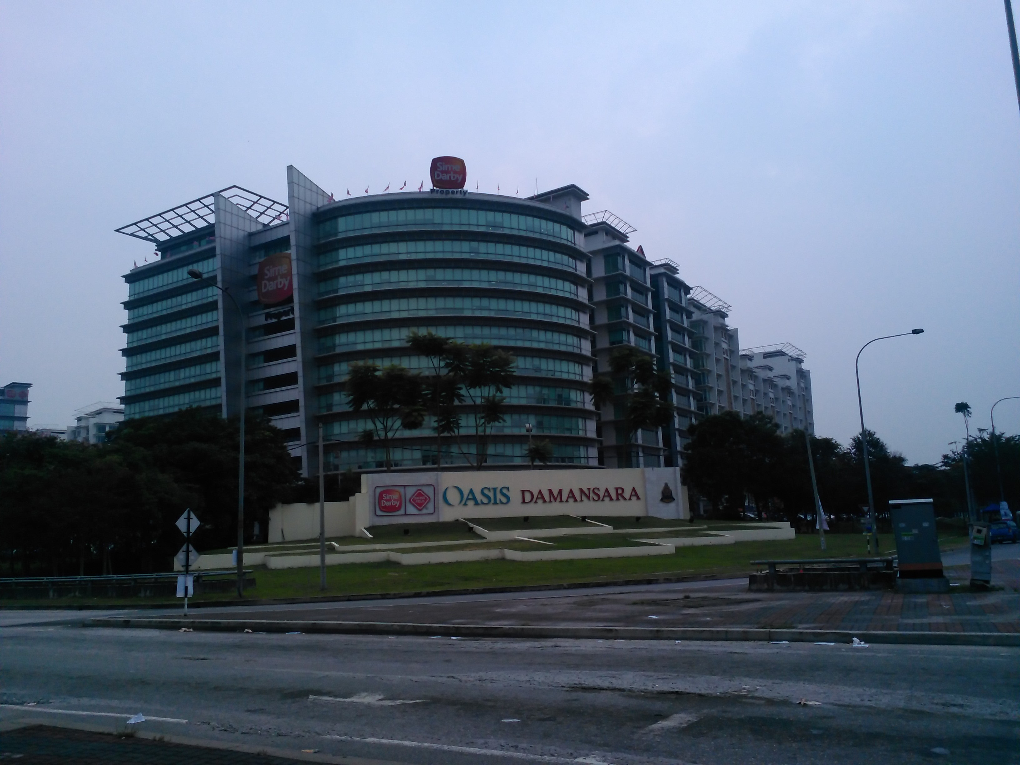 Oasis complex in Petaling Jaya